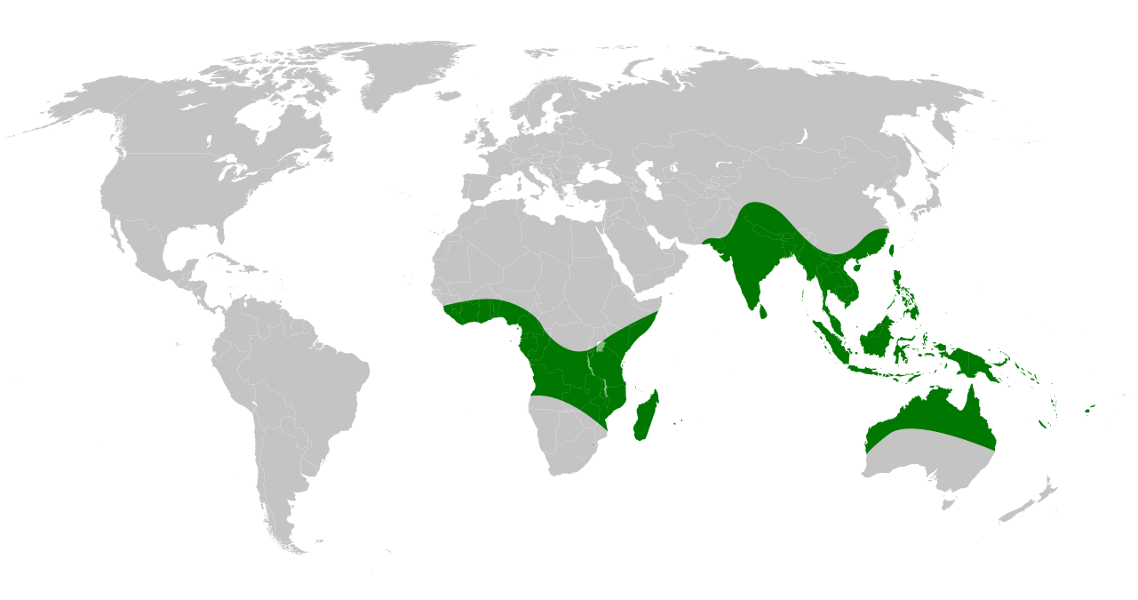 Estimated distribution range of Drynaria spp.